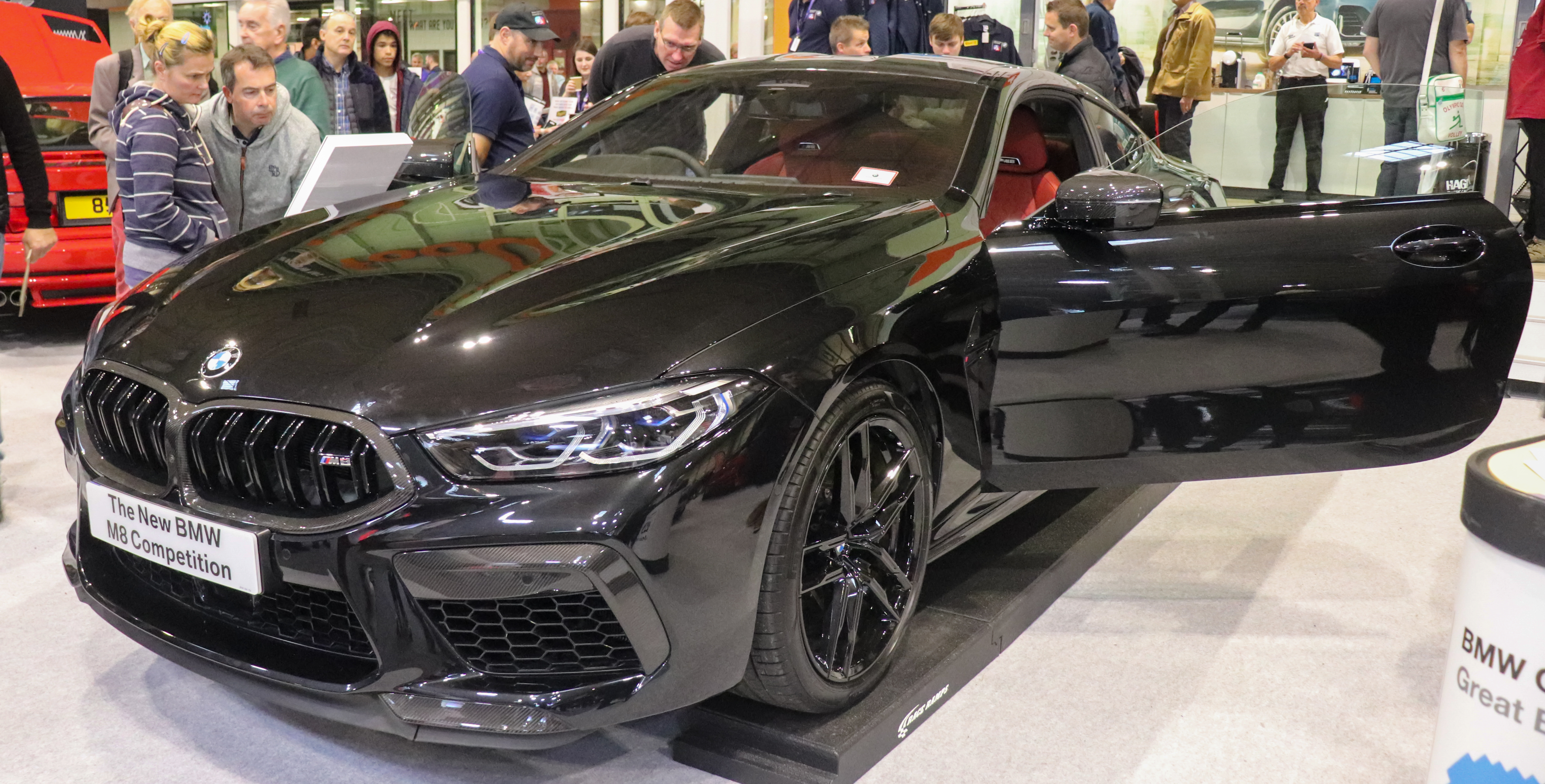 2019 BMW M8 Competition Front Taken at the NEC Classic Motor Show 2019